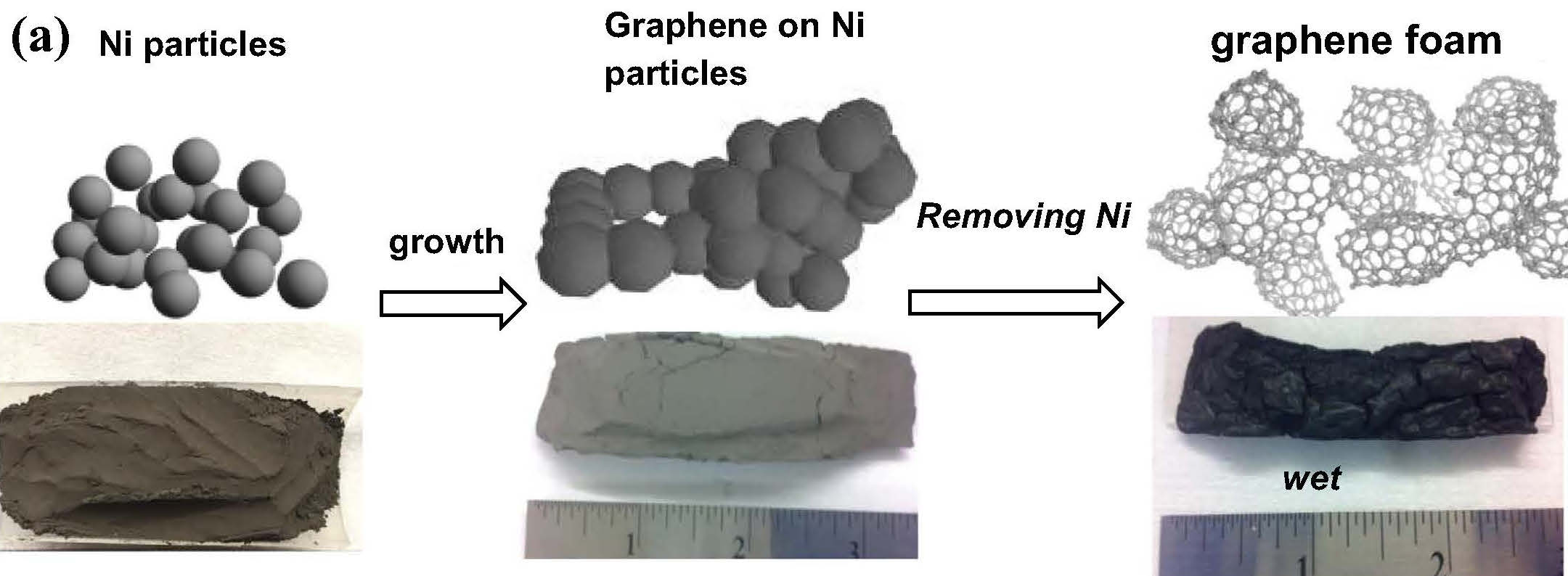 Schematic illustration of graphene foam preparation